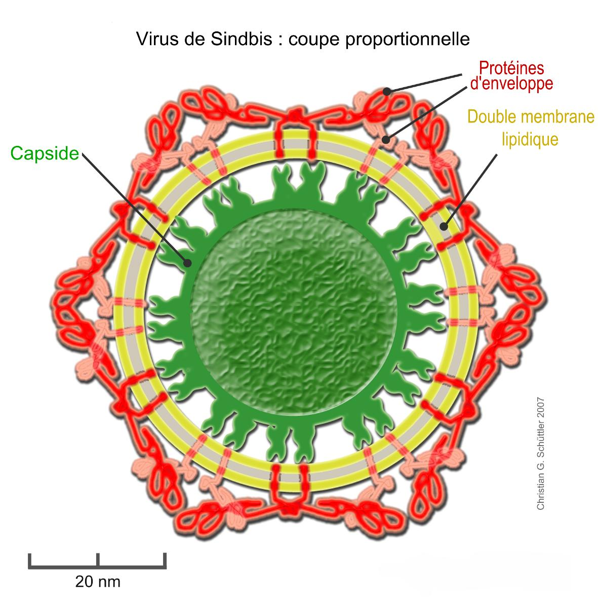 Proportional model of the Sindbis Virus according to the electron microscope views and thickness measurements by W. Zhang et al. J. Virology (2002) 76: 11645–11658 (Fig. 1) PMID 12388725